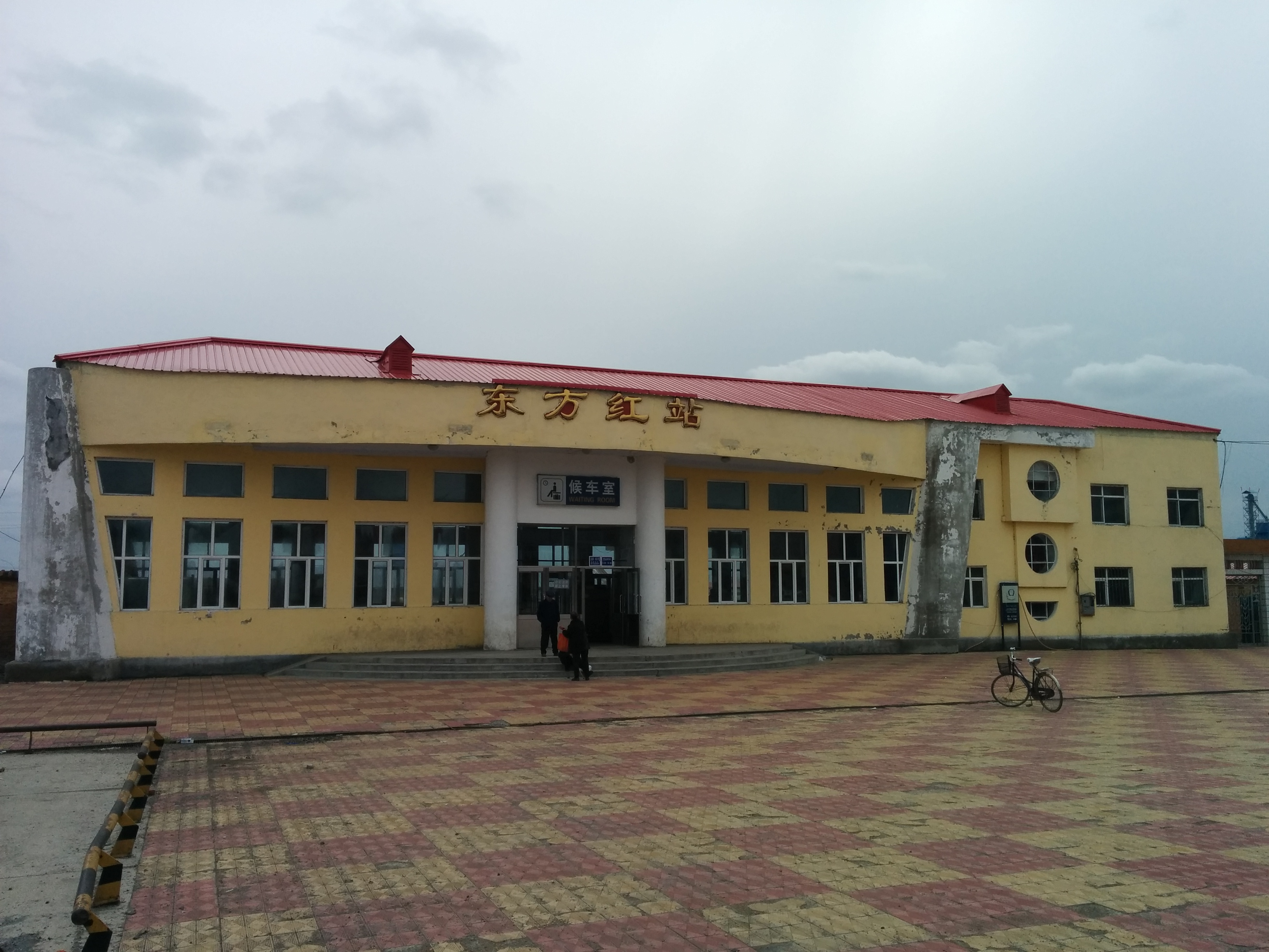 Dongfanghong Railway Station